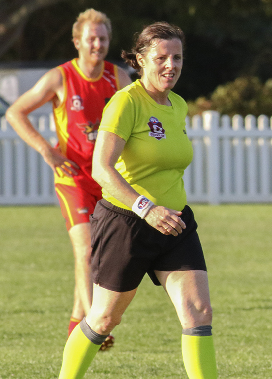 Australian rules football umpire follows play